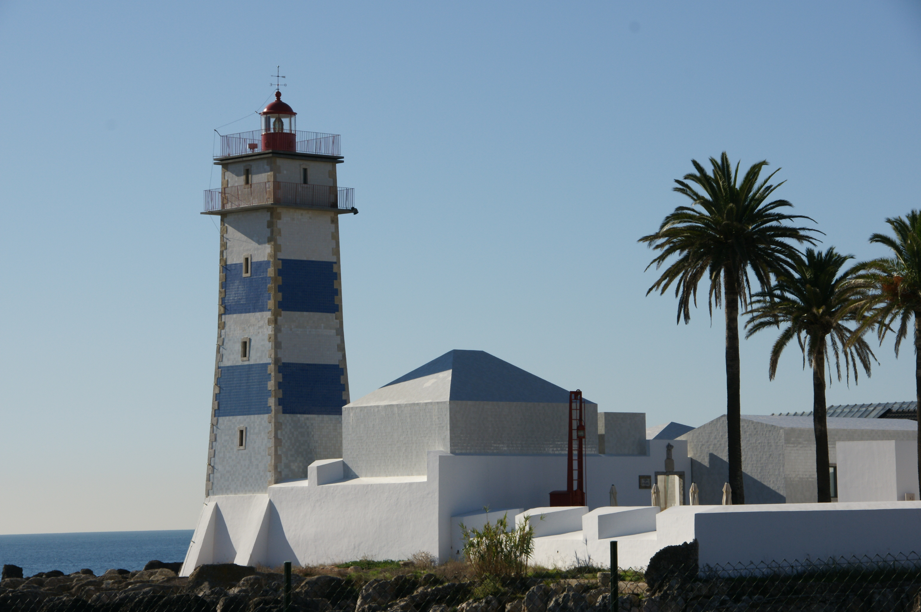 Santa Marta Lighthouse This file was uploaded for Wiki Loves Monuments in Portugal with the unique identifier 74736. This monument is classified as Imóvel de Interesse Público. This building is classified as Imóvel de Interesse Público.